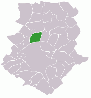 The map of Ilfov county with Otopeni city highlighted Source: Created by me, Bogdan Giuşcă